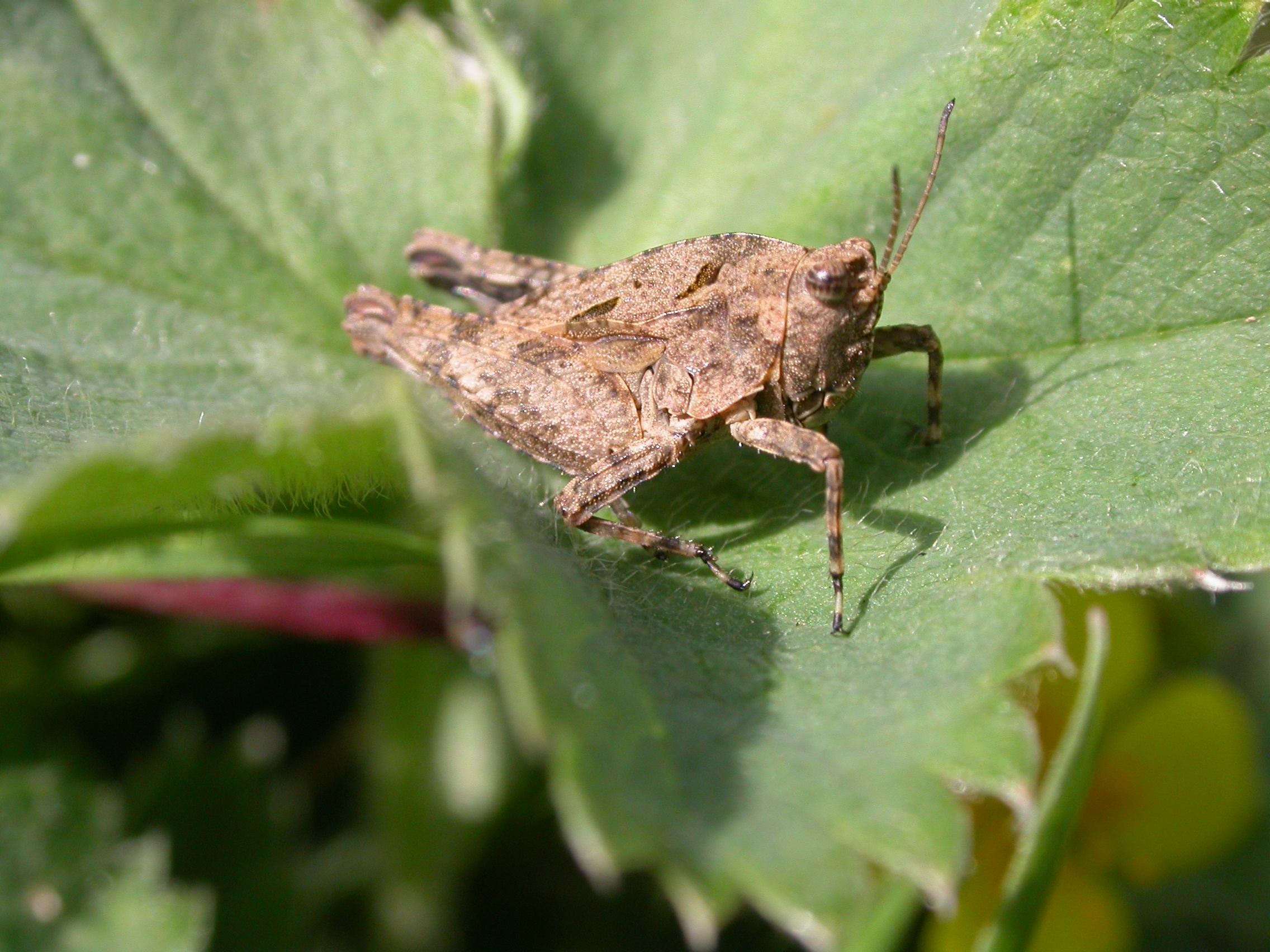 Tetrix tenuicornis, female